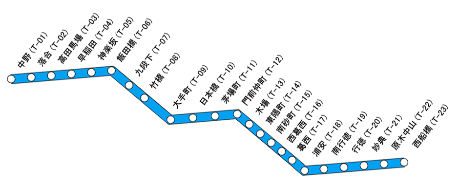 A station location map of Tokyo Metro Tōzai Line.